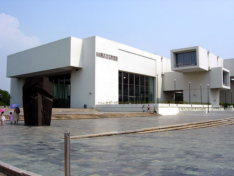 Taipei Fine Arts Museum.Bân-lâm-gú: Tâi-pak Tshī-li̍p Bí-su̍t-kuán.